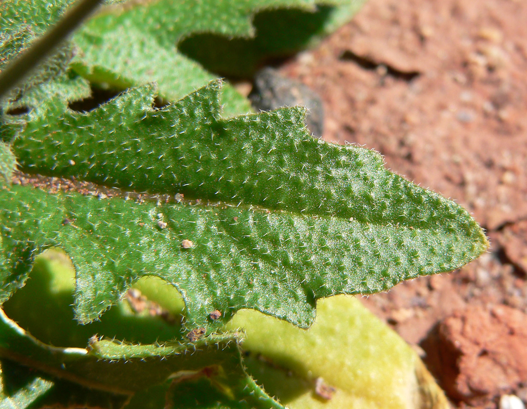 Malcolmia africana near the Northshore Road east of the Callville Bay road, Lake Mead National Recreation Area, southern Nevada (NNPS field trip)